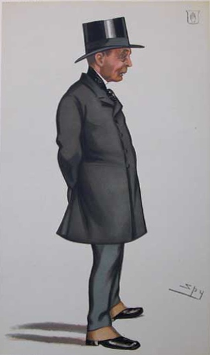 Caricature of Rt Hon Sir JR Mowbray MP. Caption read "Committee of Selection".